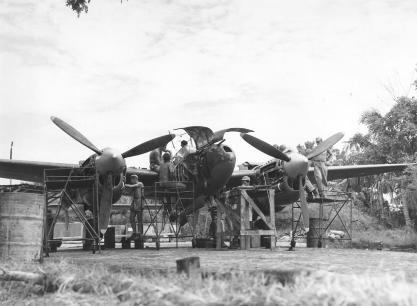 Ground crew members of the 459th Fighter Squadron, nicknamed the "Twin Dragon Squadron", working on a Lockheed P-38 at an air base in Chittagong, India (now Bangladesh) - January 1945. (72611 A.C.) .